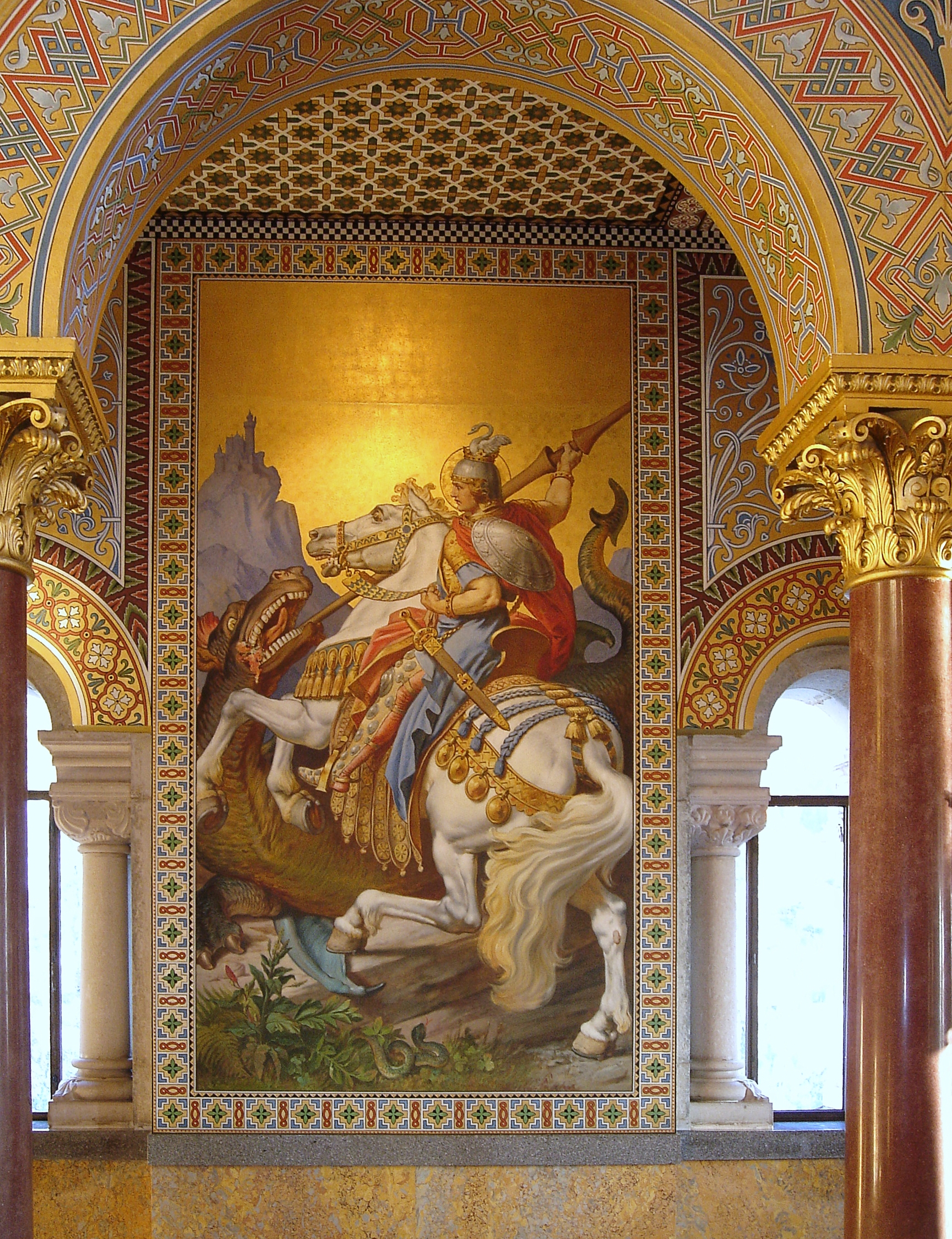 Interior design of Neuschwanstein Castle